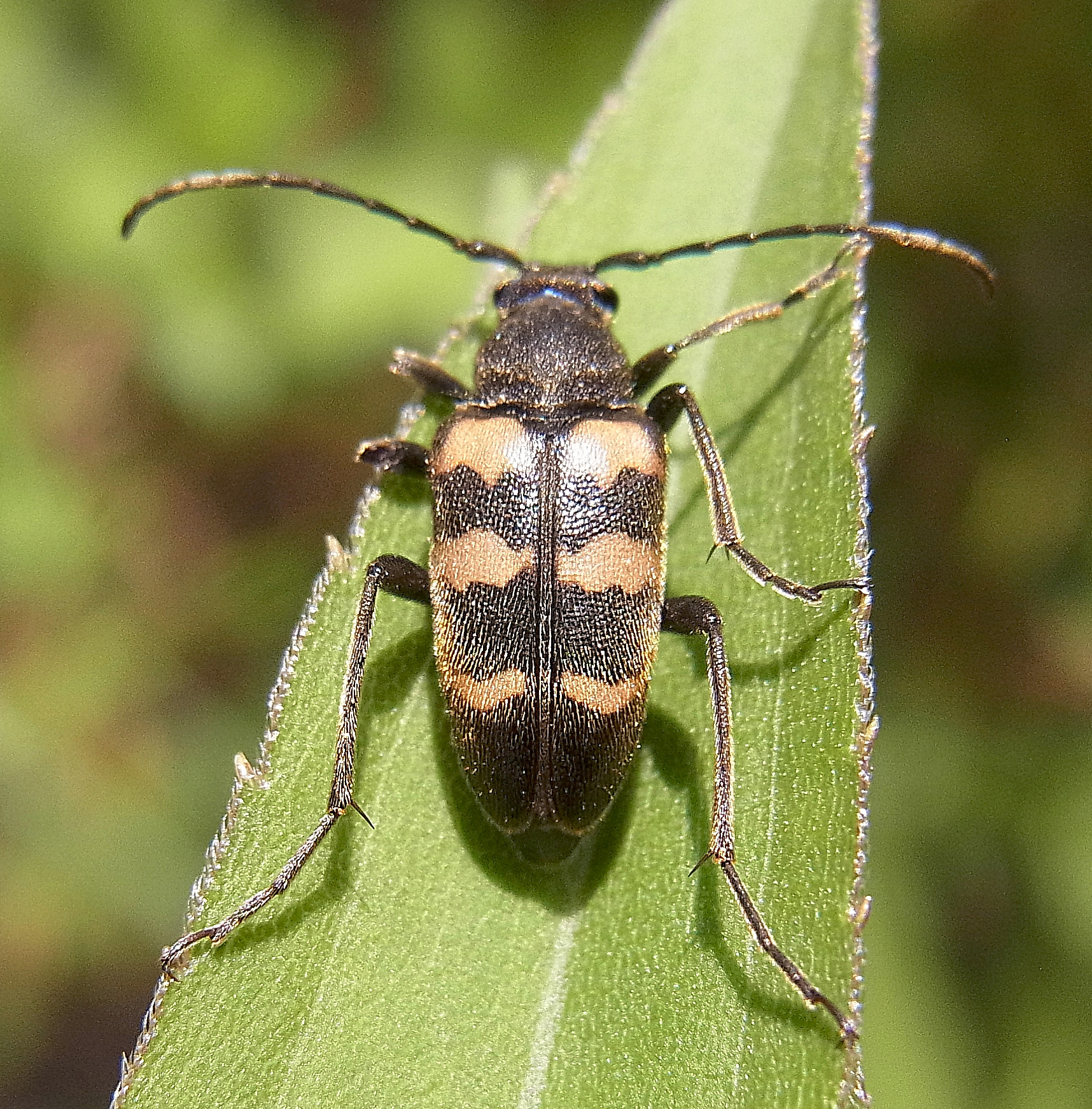 Judolia erratica with much black from Hungary, Gerecse-mountains, north of Csonkás-mountain at 2015-06-16